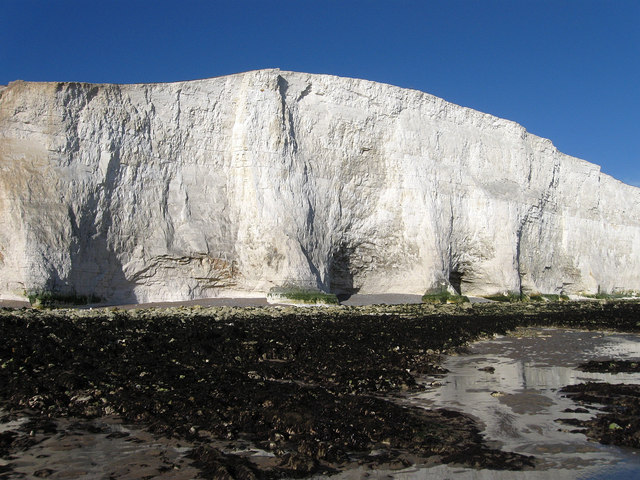 Brass Point (Seven Sister) A number of caves have been formed at the base of the cliff through wave action. Brass Point is the third of the Seven Sisters if travelling west to east.